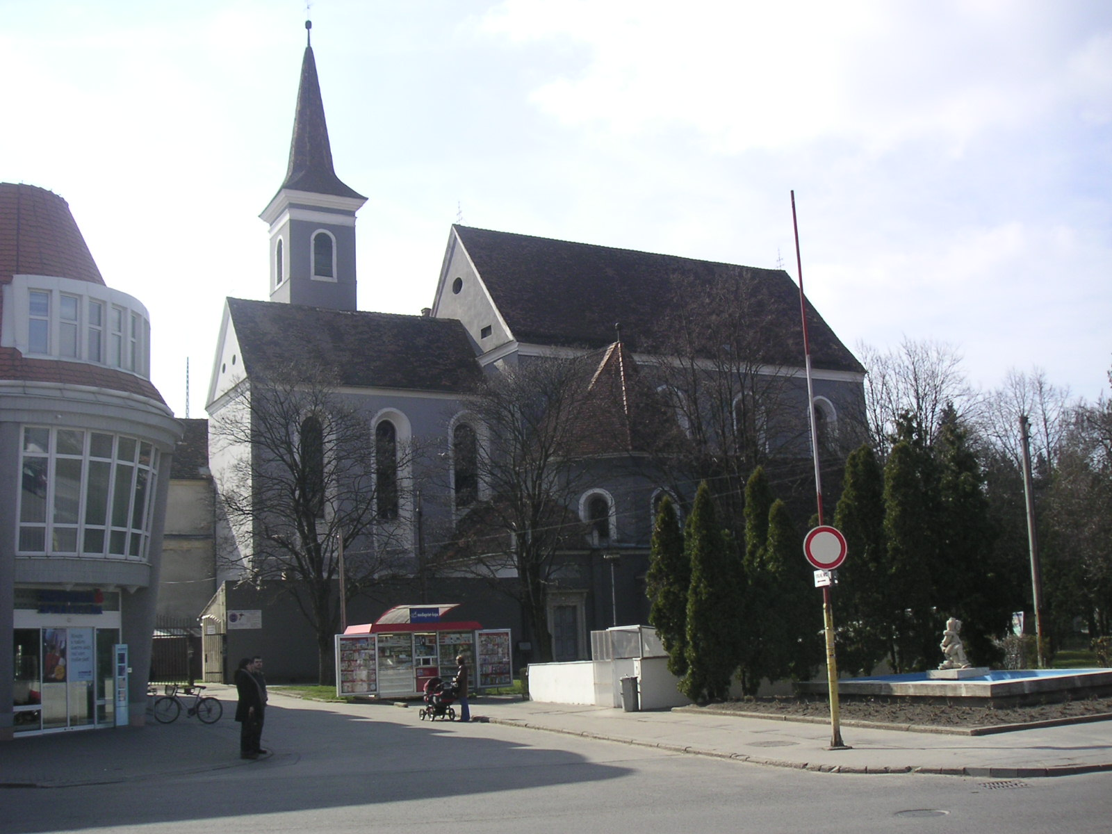 Church and Monastery at Malacky, Slovakia